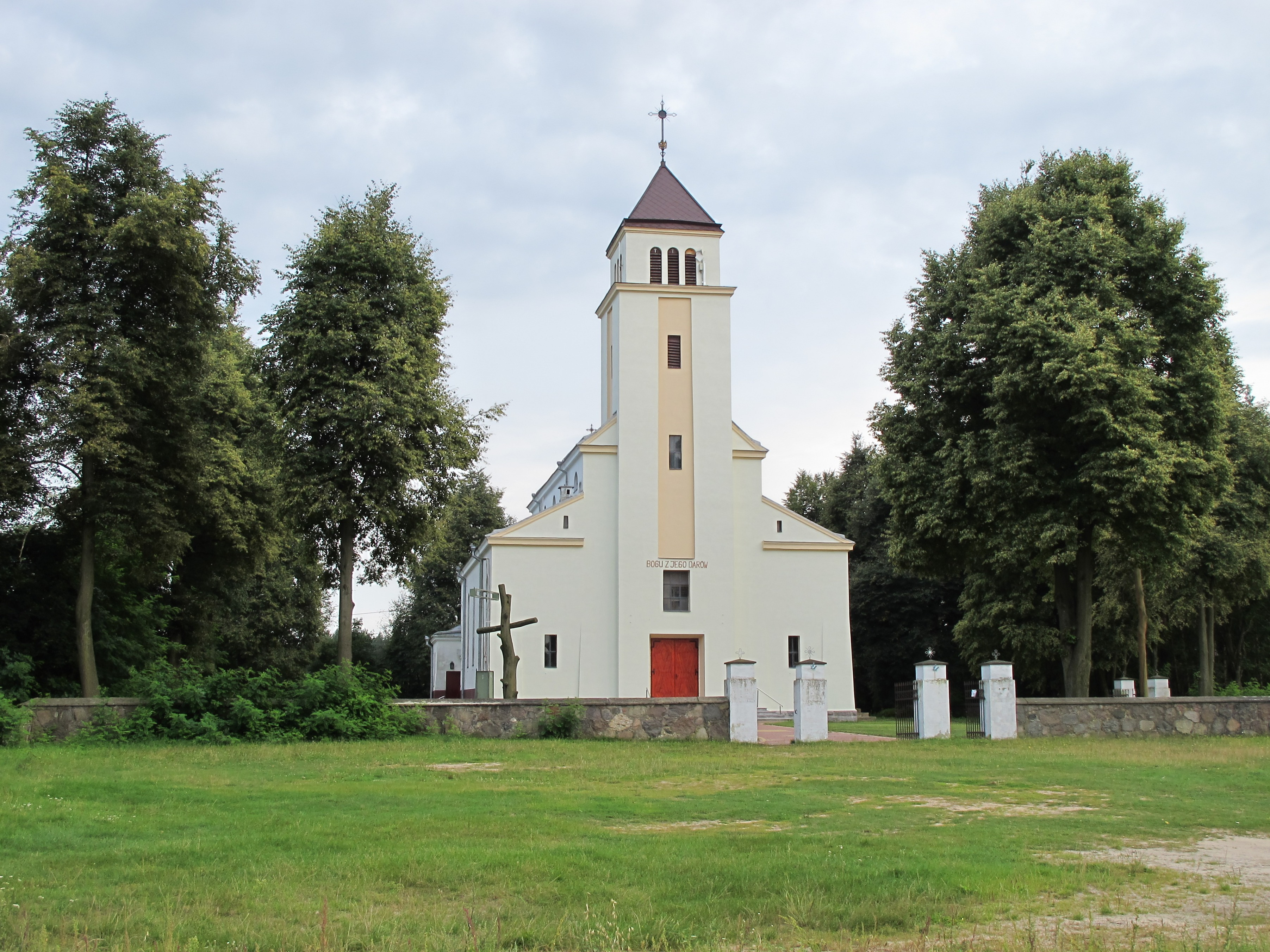 Saint Anthony of Padua church in Nowe Chlebiotki village, gmina Zawady, podlaskie, Poland